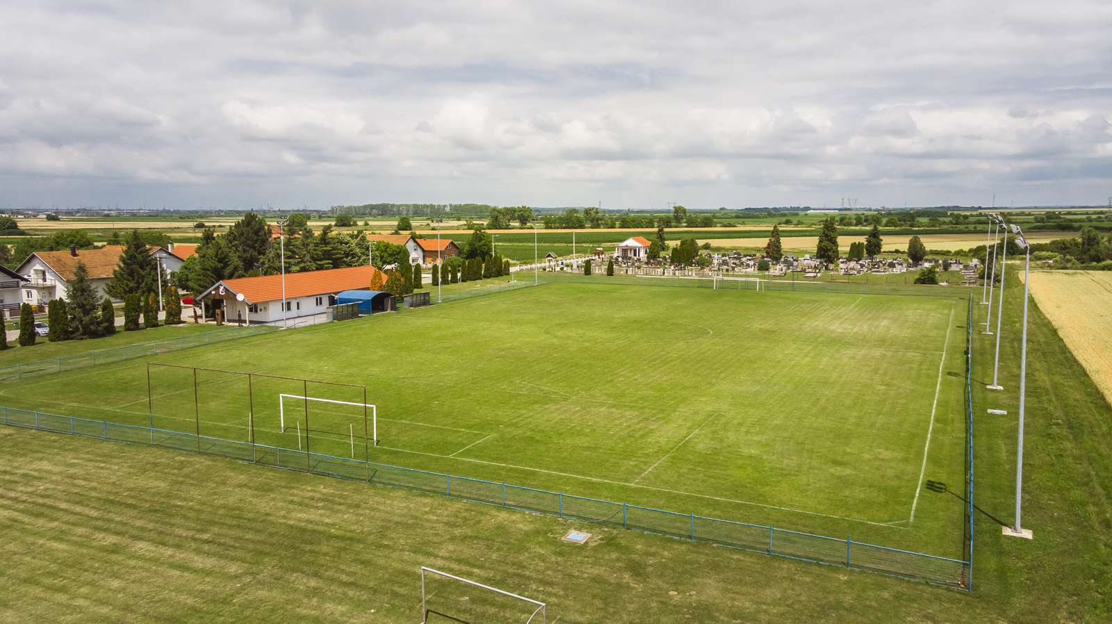 FC "Sloga" Ernestinovo